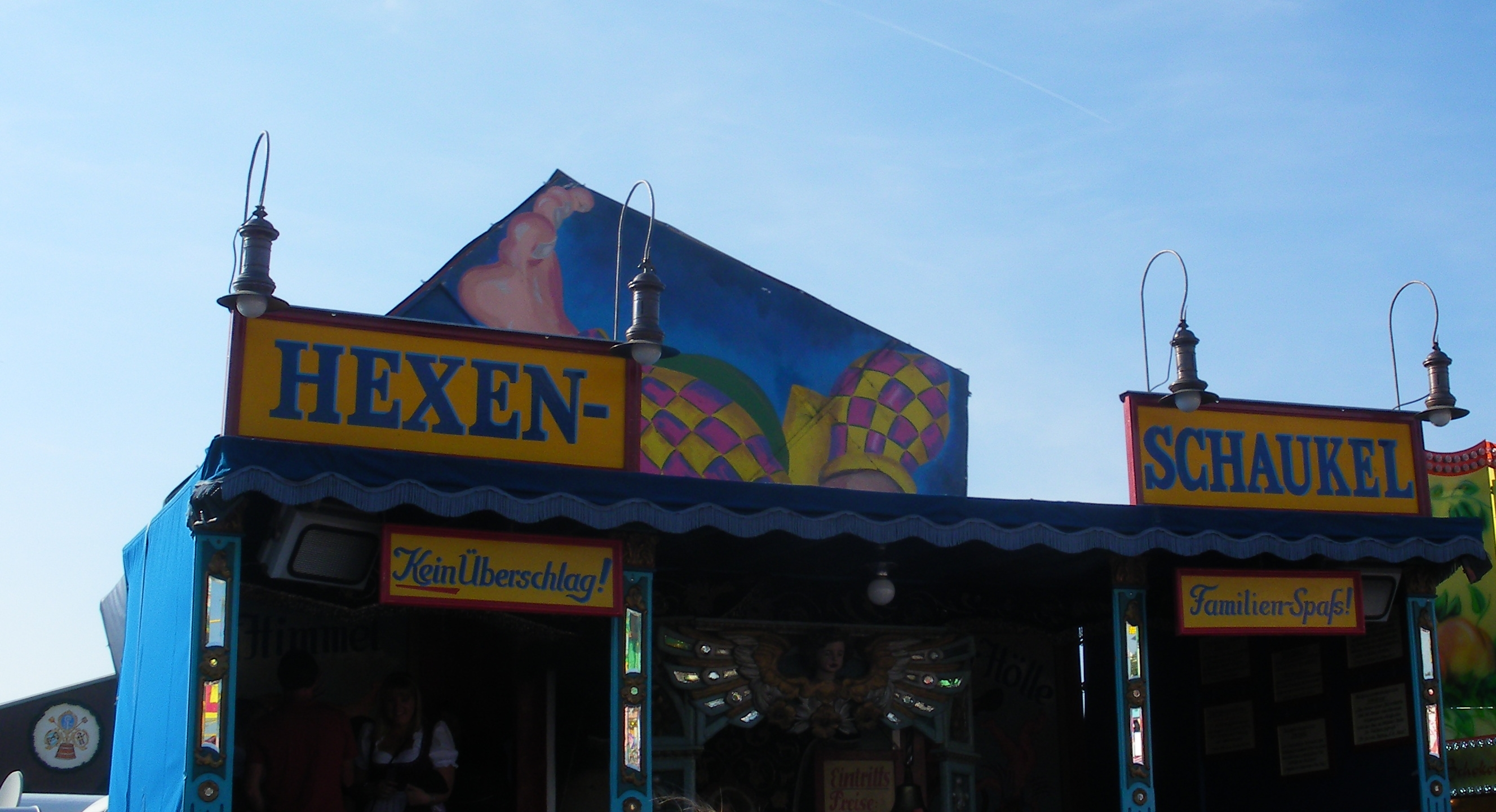 Hexenschaukel, Oktoberfest 2011